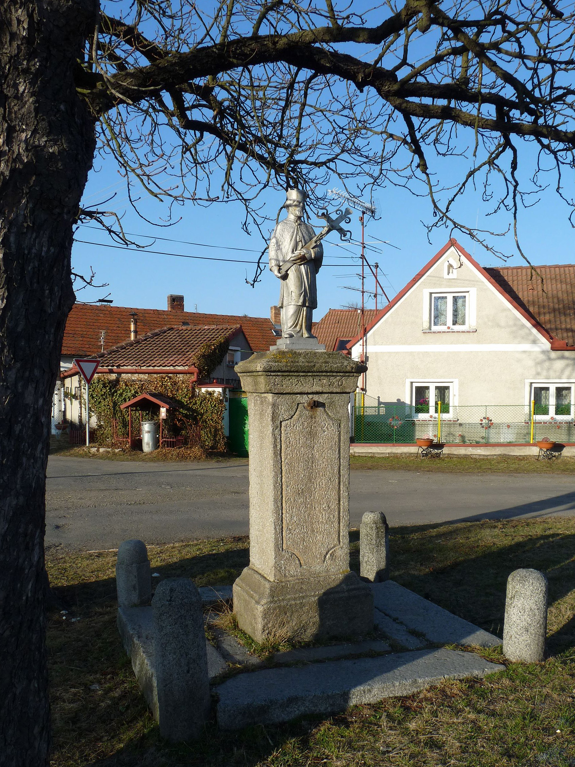 St John of Nepomuk statue in the municipality of Nezamyslice, Klatovy District, Plzeň Region, Czech Republic